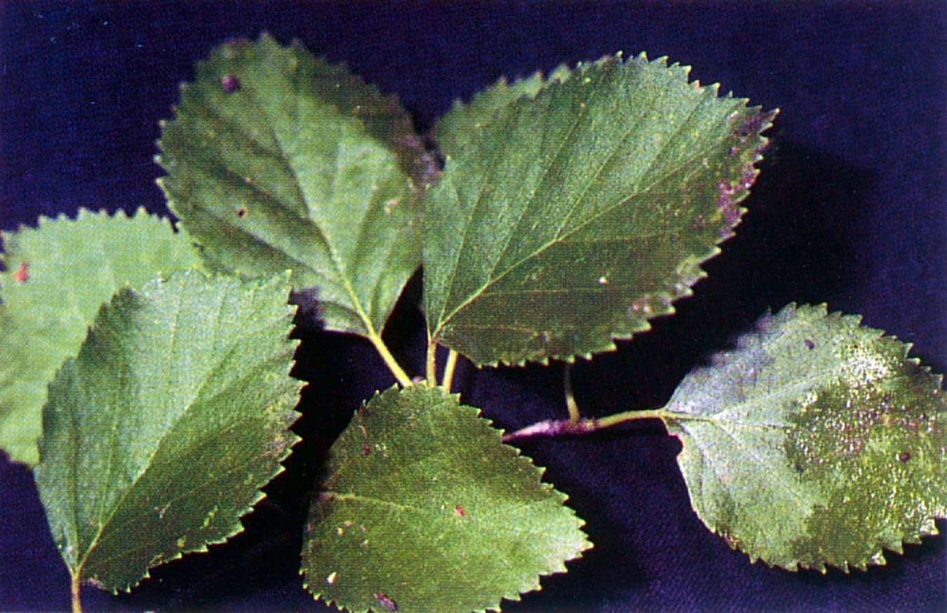 Betula occidentalis — Water birch. USDA photo